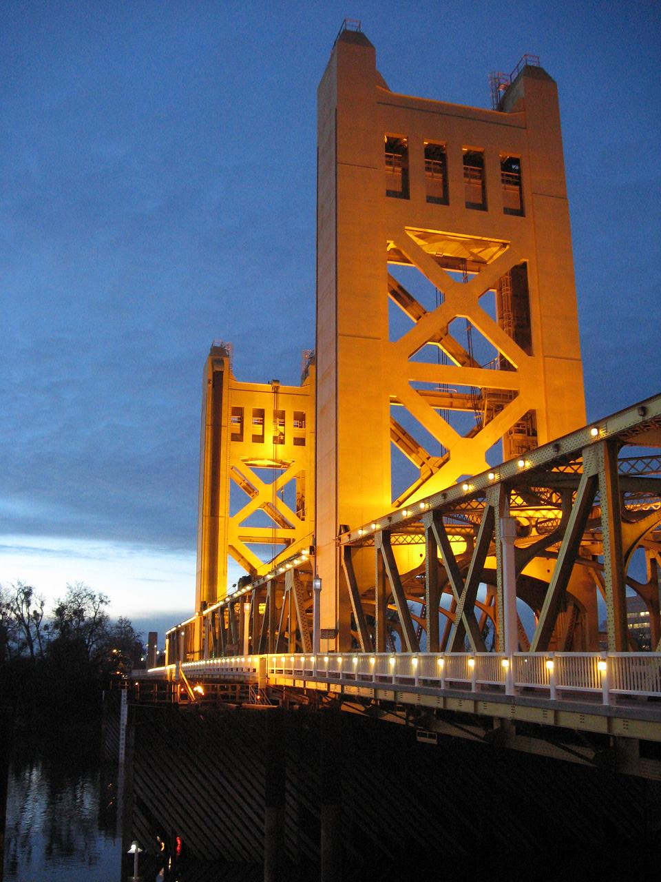 Tower Bridge in Sacramento, CA